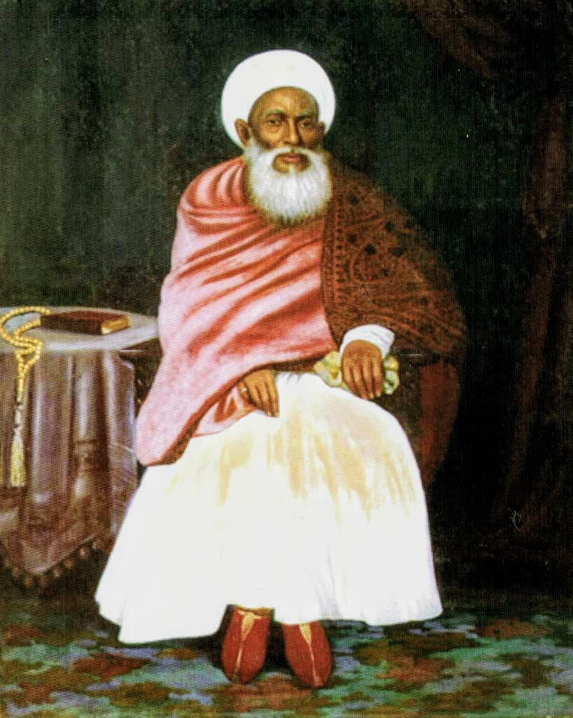 Portrait of Abdul Qadir Najmuddin at Najm Baug, Mumbai